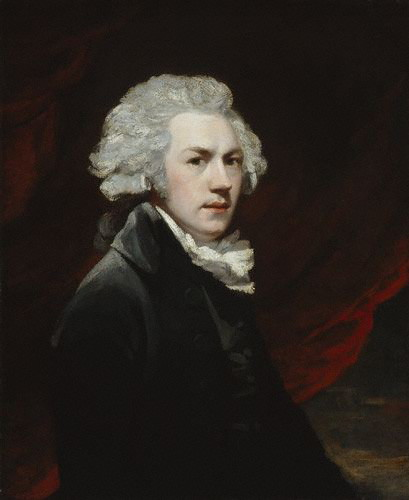 Selfportrait of the painter and President of the Royal Academy Martin Archer Shee